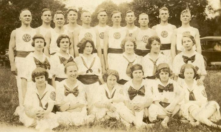 Athletes of the sports club Jyry Helsinki in the 1920s.